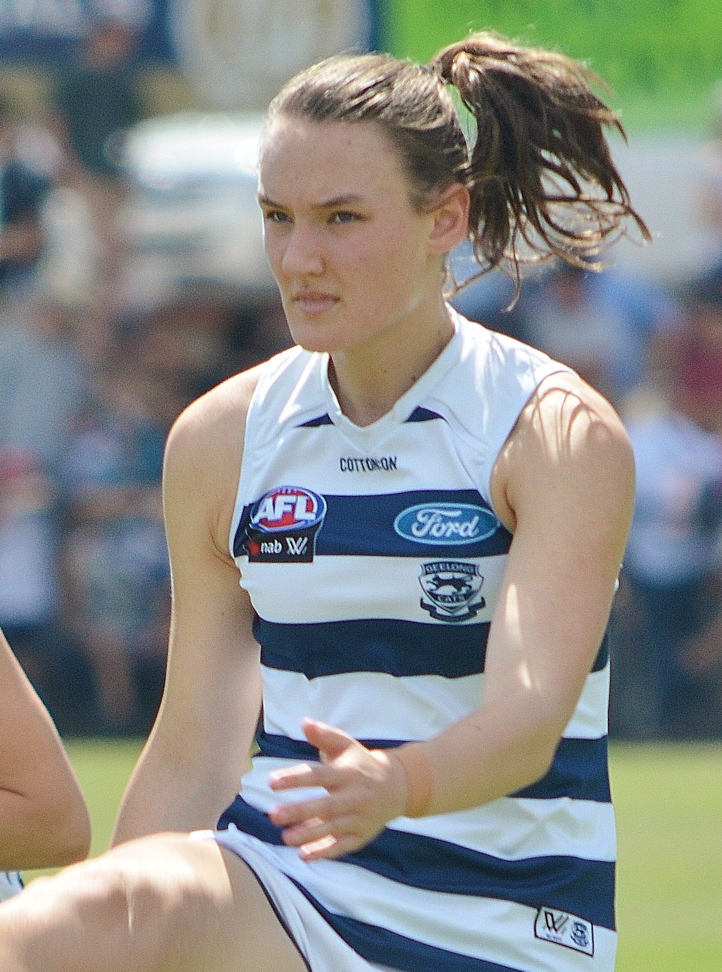 Georgia Clarke with Geelong in the round 4 2020 AFLW match against Richmond at Queen Elizabeth Oval in Bendigo.